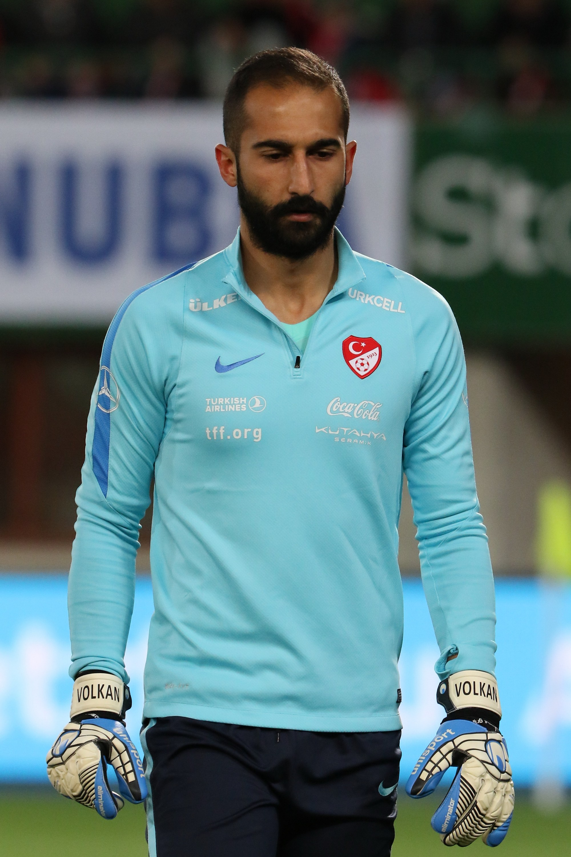 Friendly match – Austria (red shirts) vs. Turkey (blue shirts) 1–2 (1–1) on 2016-03-29 in Ernst-Happel-Stadion, Vienna – The photo shows the goalkeeper of Turkey Volkan Babacan (İstanbul Başakşehir).